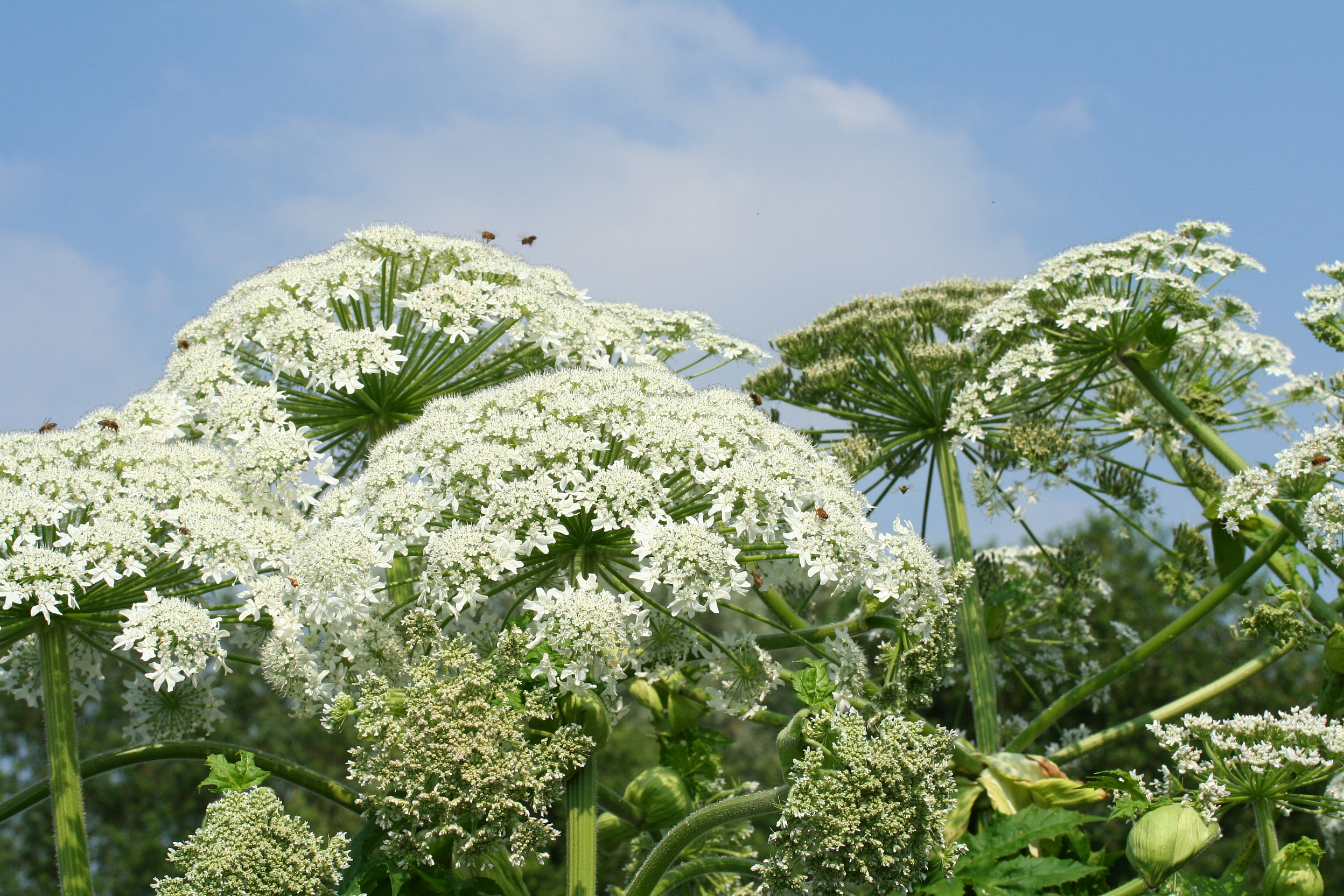 Giant Hogweed (Heracleum mantegazzianum) – Herbetum of the National Botanic Garden of Belgium.